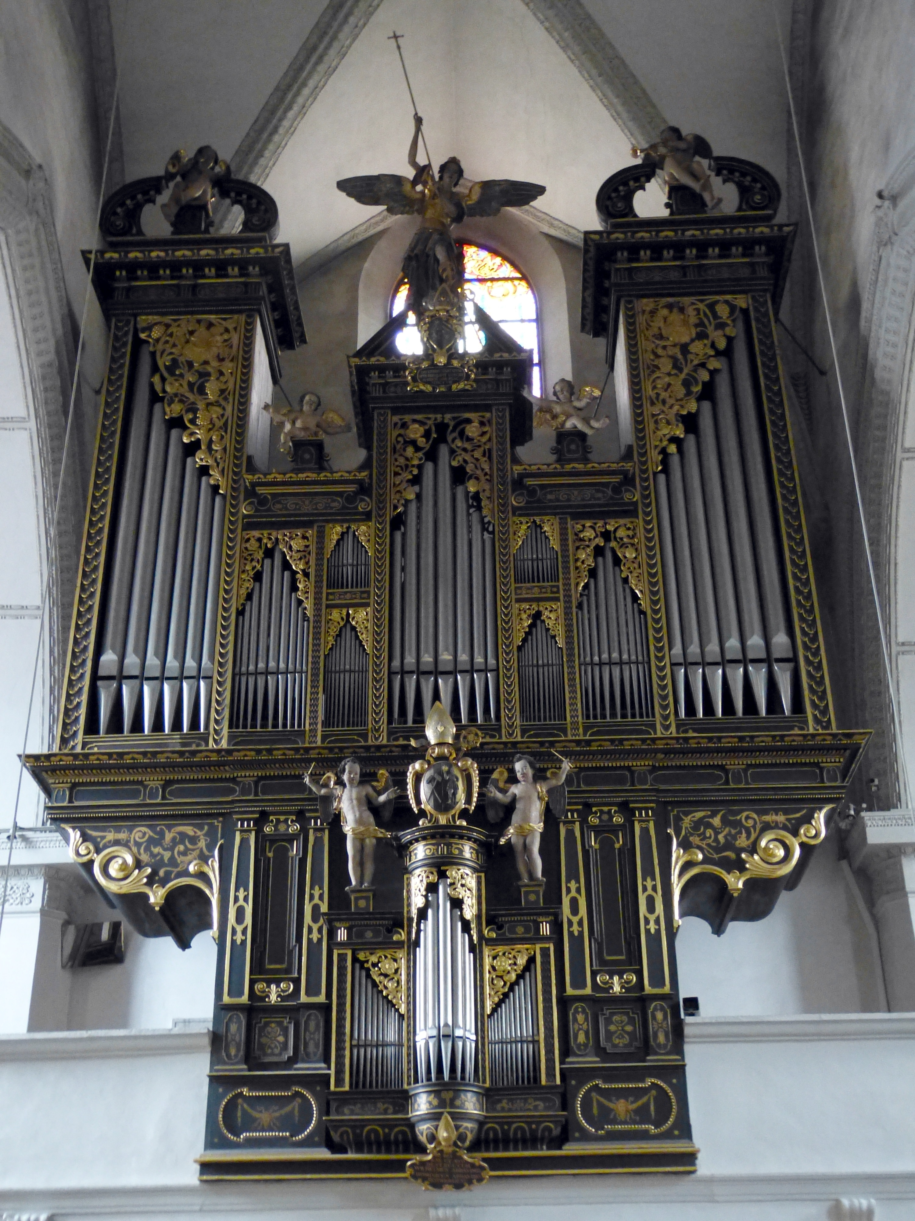 Schlägl ( Upper Austria ). Monastery church - Pipe organ ( 1635 ).